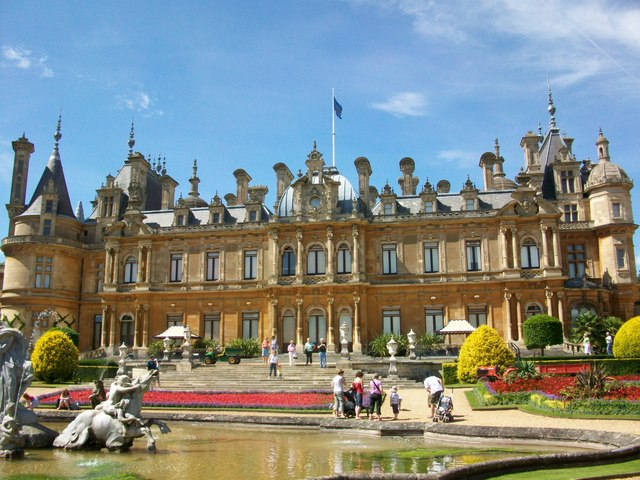 Waddesdon Manor front face Taken on an exceptionally warm summers day, this beautiful manor must count among England's finest stately homes.